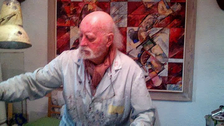 Michael Green in his studio in Molini die Triora, Liguria, Italy